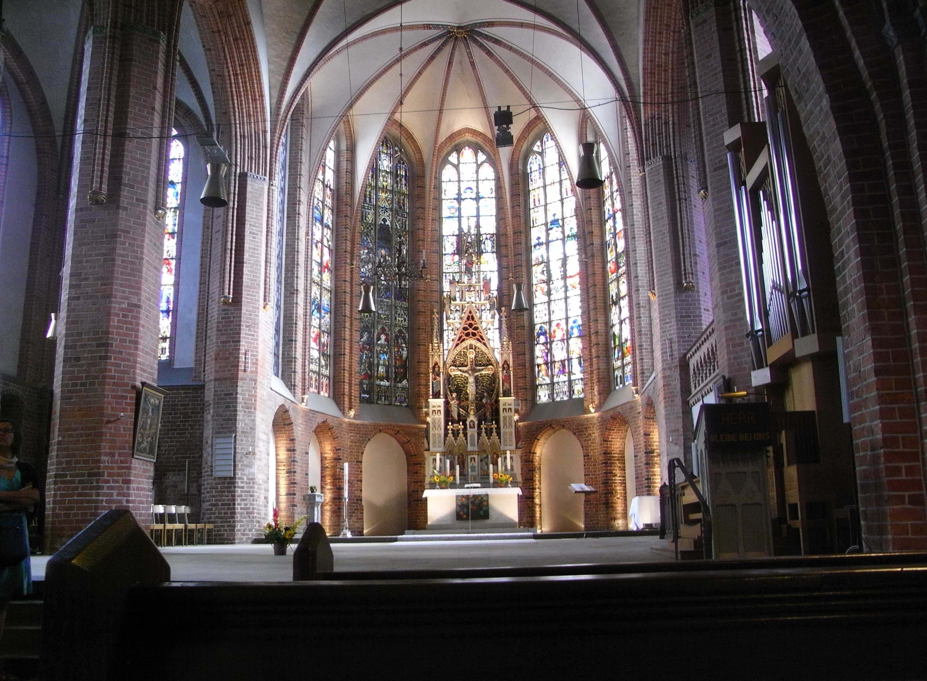 Interior of St.Mary's Church in Uelzen, Lower Saxony, Germany